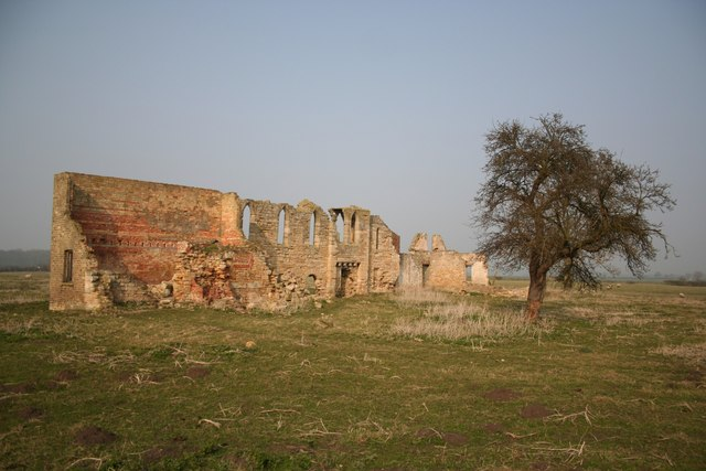 Tupholme Abbey ruins The ruins of the Praemonstratensian abbey founded c1160, looking north